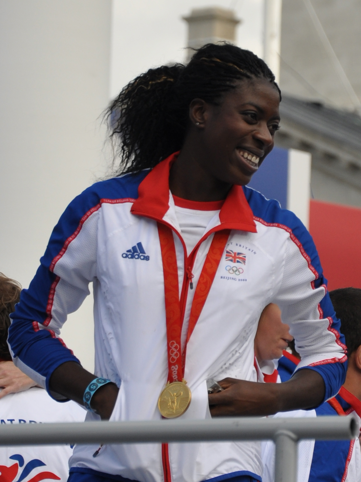 Christine Ohuruogu, British athlete, at the parade in London to celebrate the achievements of British competitors at the 2008 Summer Olympics.